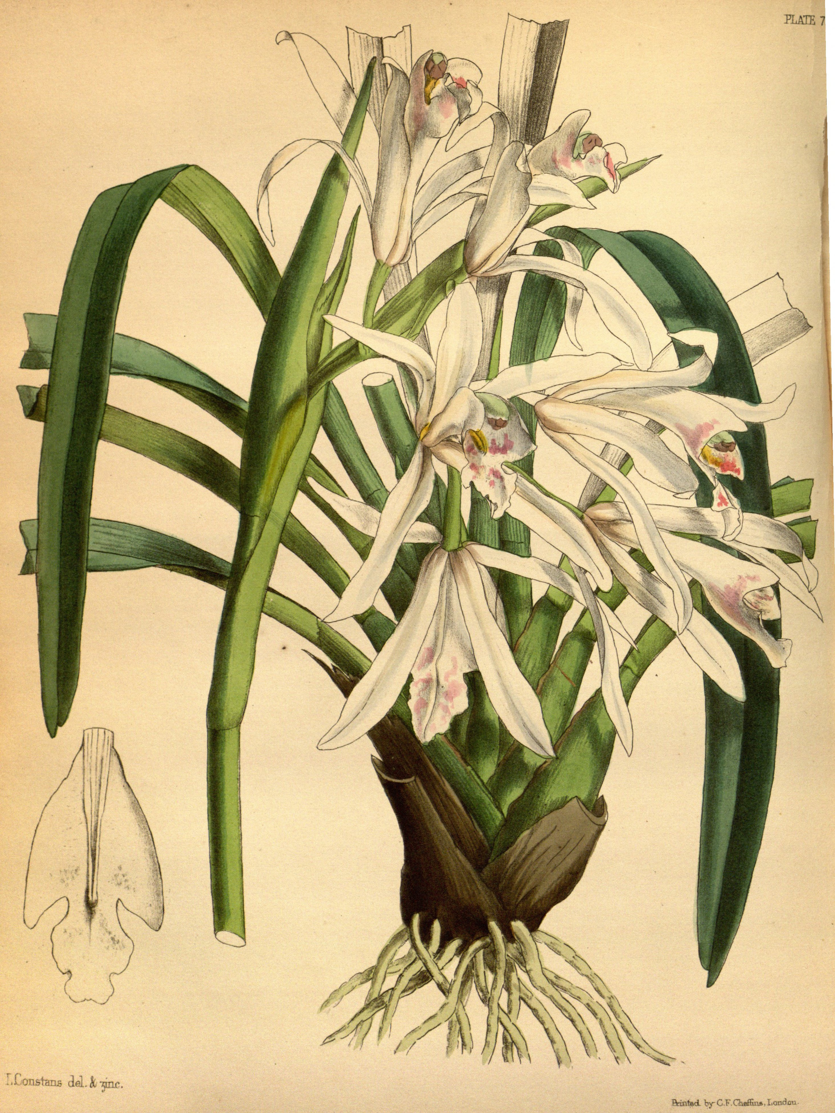 Cymbidium mastersii Griff. ex Lindl.